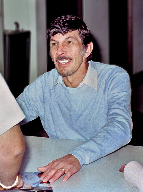 Actor Leonard Nimoy appearing at a science fiction convention.